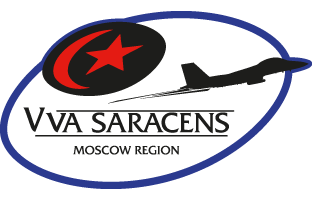 vva saracens logo